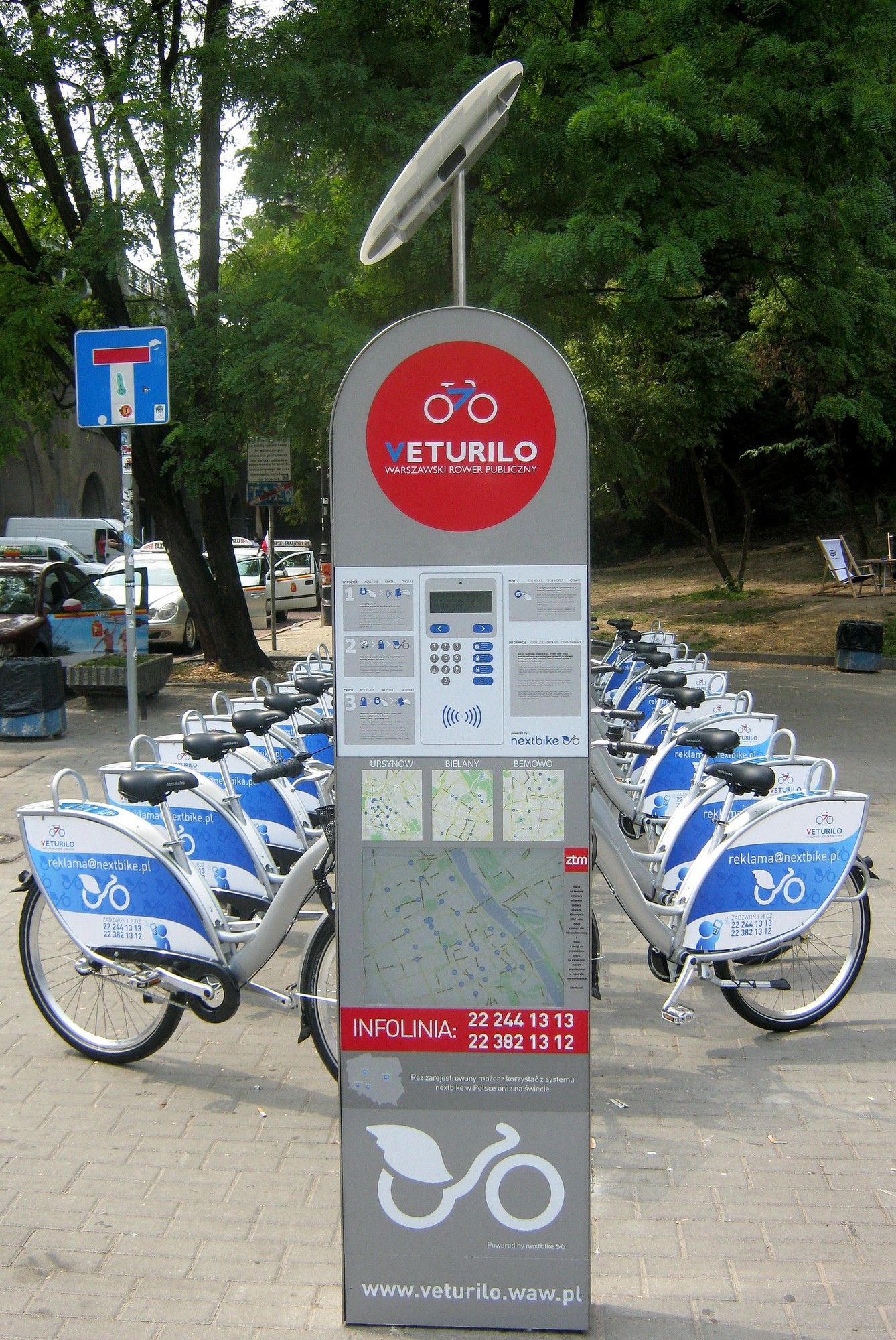 Veturilo bicycle station near railway station Warszawa Powiśle